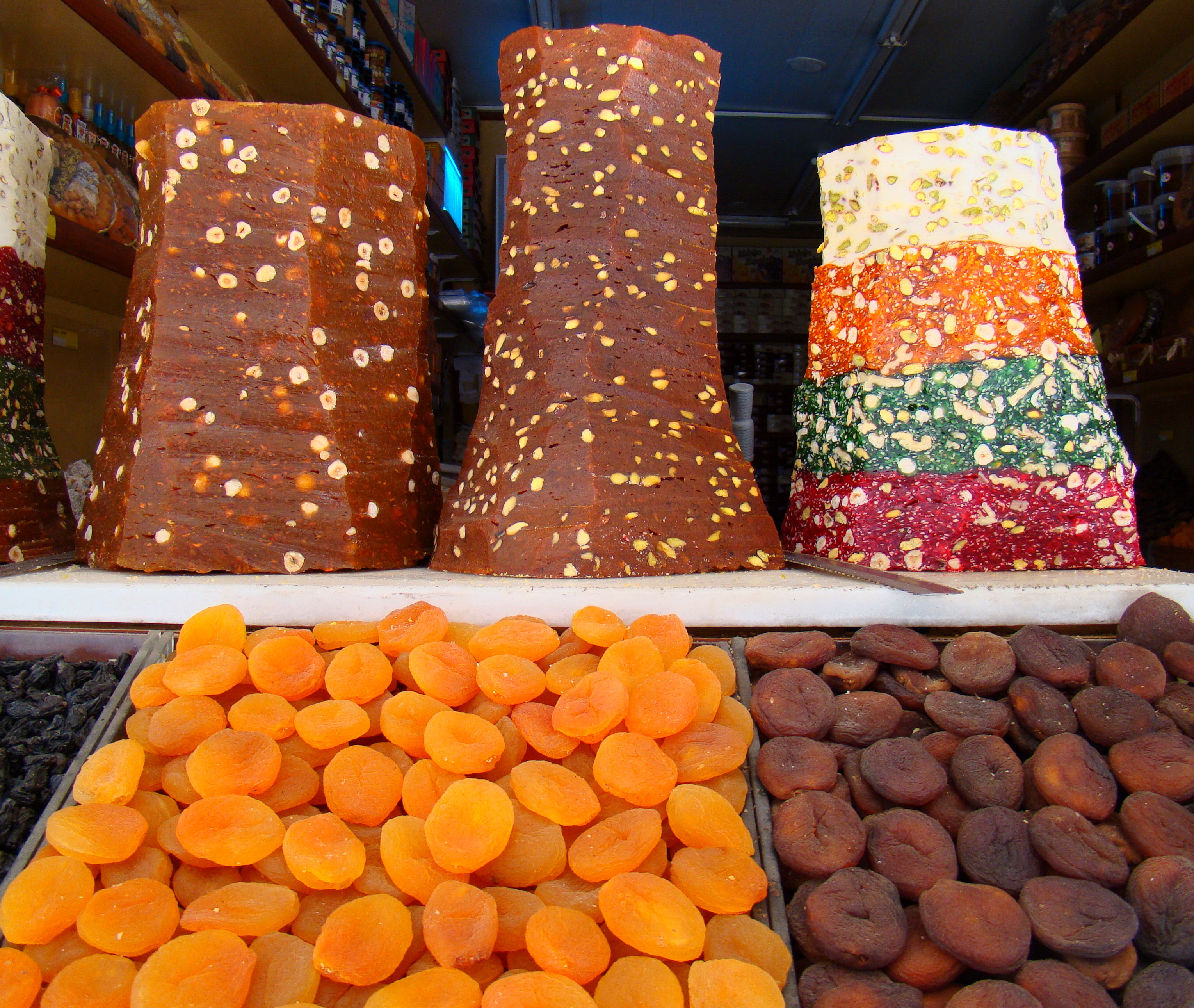 Apricots in different forms on sale in a shop in Malatya